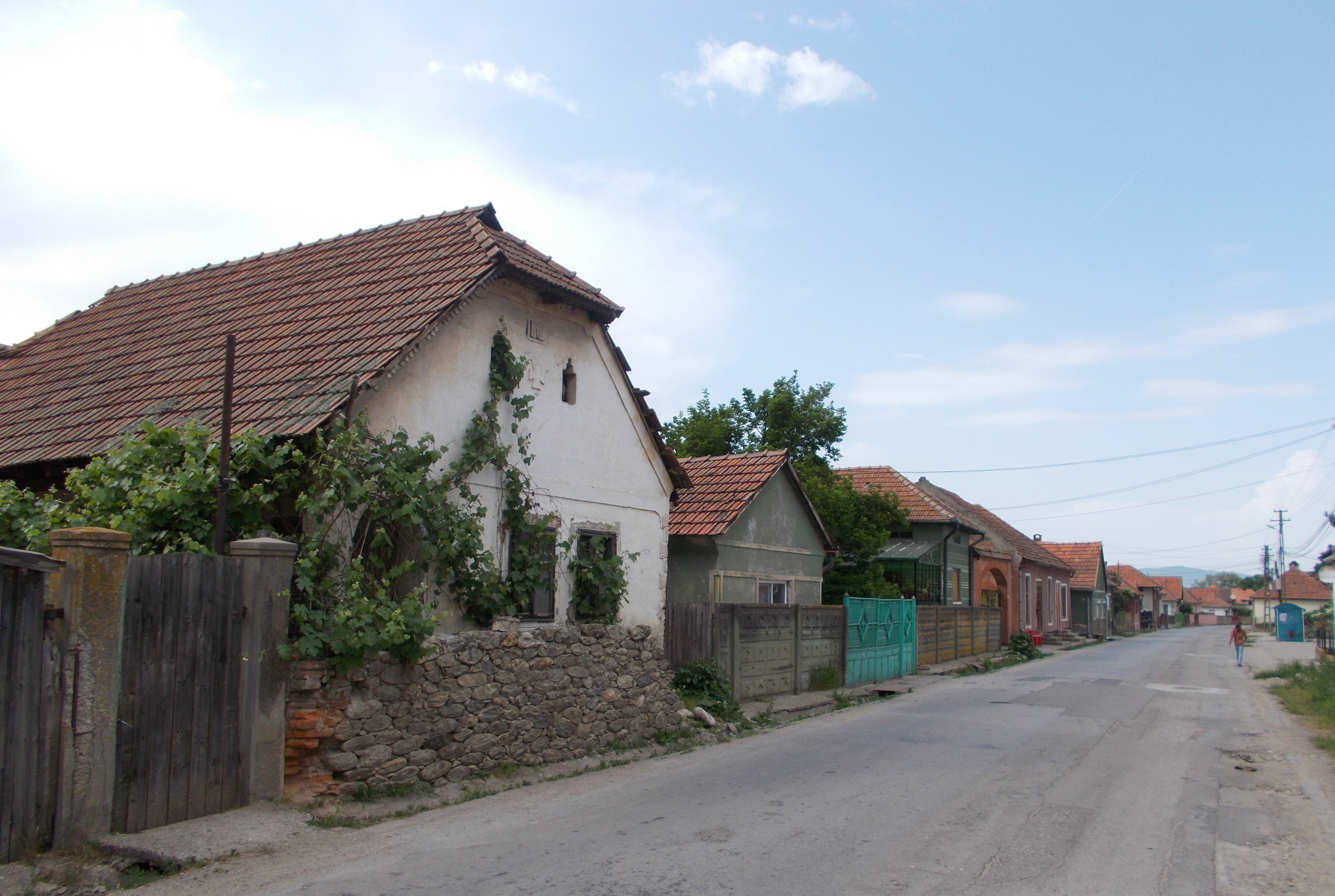 Ostrovu Mic, Hunedoara County, Romania